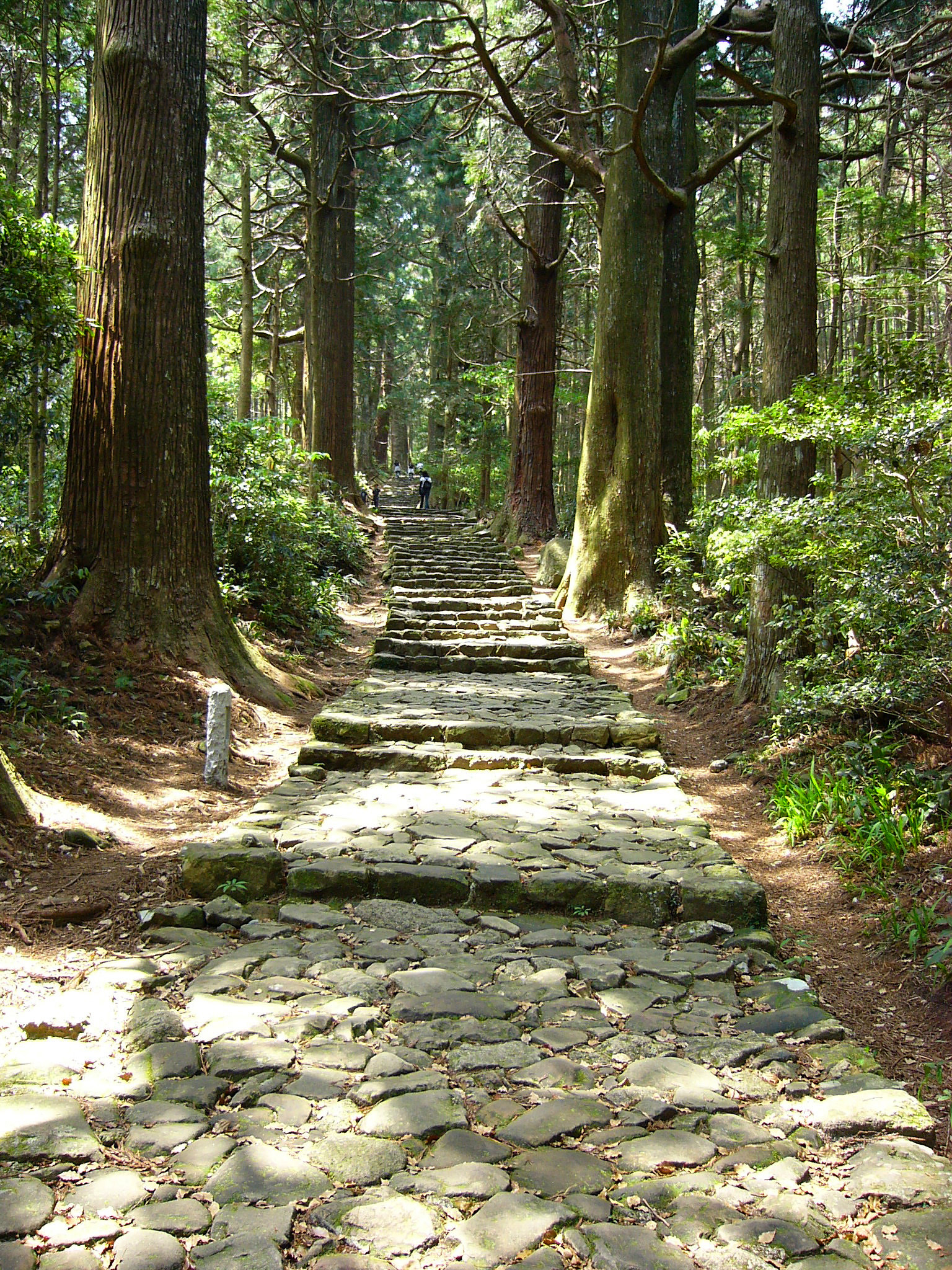 Daimonzaka in Nachikatsuura, Wakayama prefecture, Japan